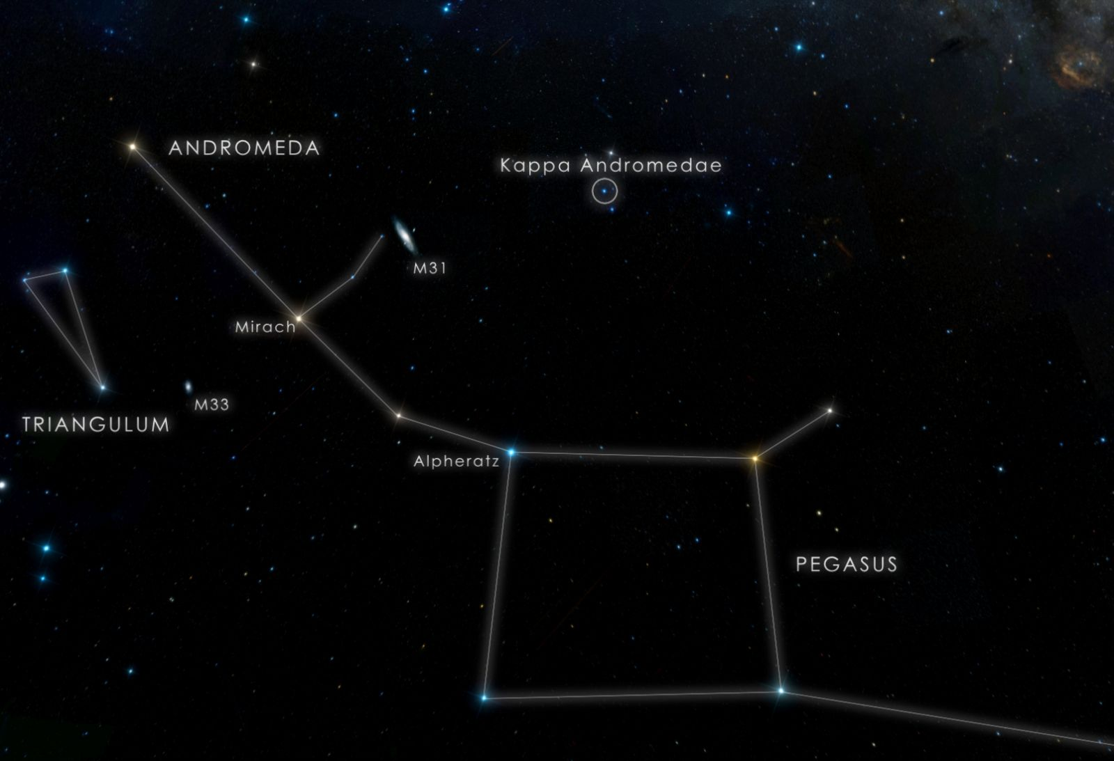 This chart locates the star Kappa Andromedae, which is visible to the unaided eye from suburban skies. Kappa And b orbits its star at a projected distance of 55 times Earth's average distance from the sun and about 1.8 times as far as Neptune; the actual distance depends on how the system is oriented to our line of sight, which is not precisely known. The object has a temperature of about 2,600 degrees Fahrenheit (1,400 Celsius) and would appear bright red if seen up close by the human eye. Carson's team detected the object in independent observations at four different infrared wavelengths in January and July of this year. Comparing the two images taken half a year apart showed that Kappa And b exhibits the same motion across the sky as its host star, which proves that the two objects are gravitationally bound and traveling together through space. Comparing the brightness of the super-Jupiter between different wavelengths revealed infrared colors similar to those observed in the handful of other gas giant planets successfully imaged around stars.